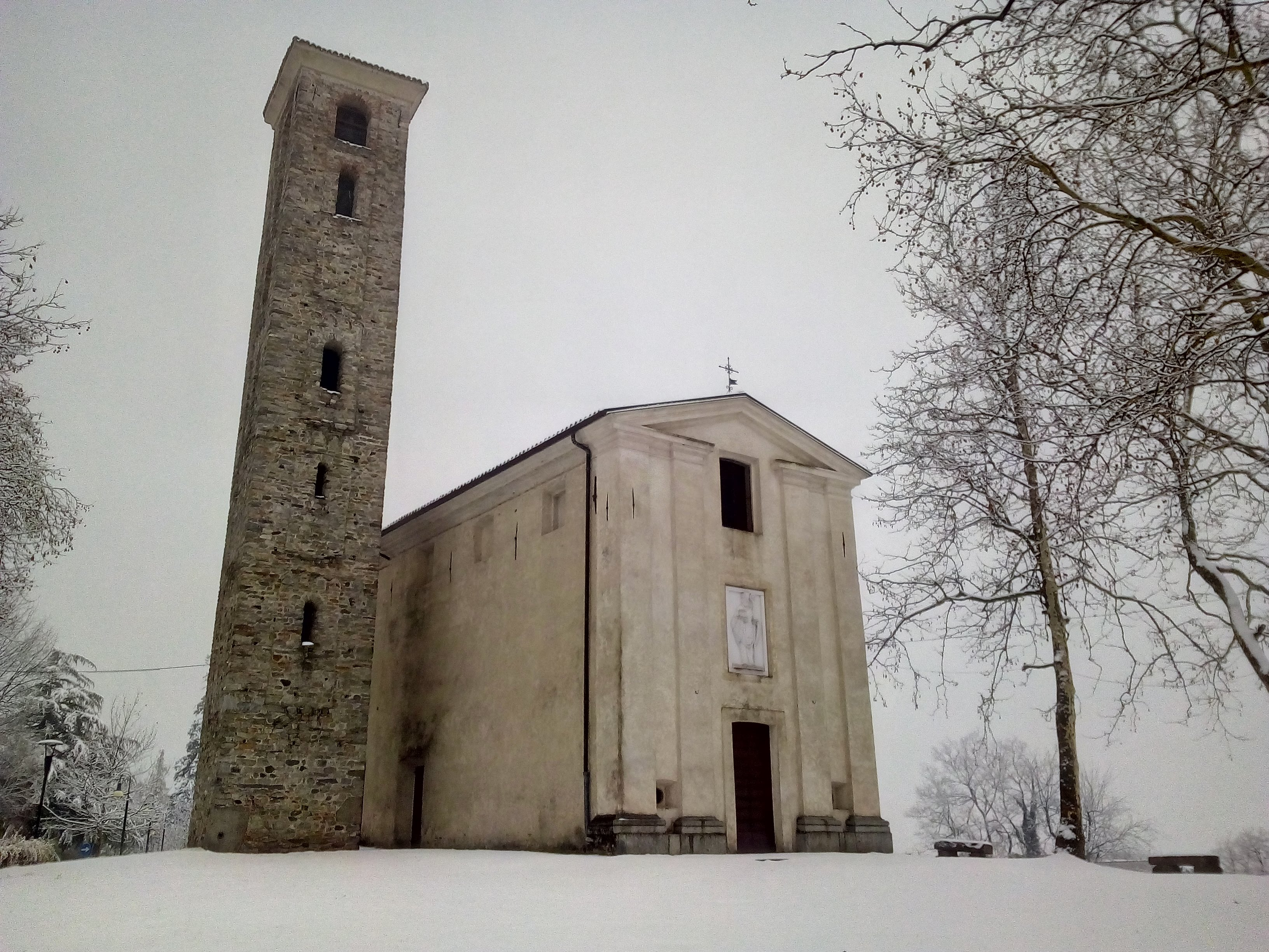 Sant'Eusebio's church Casciago